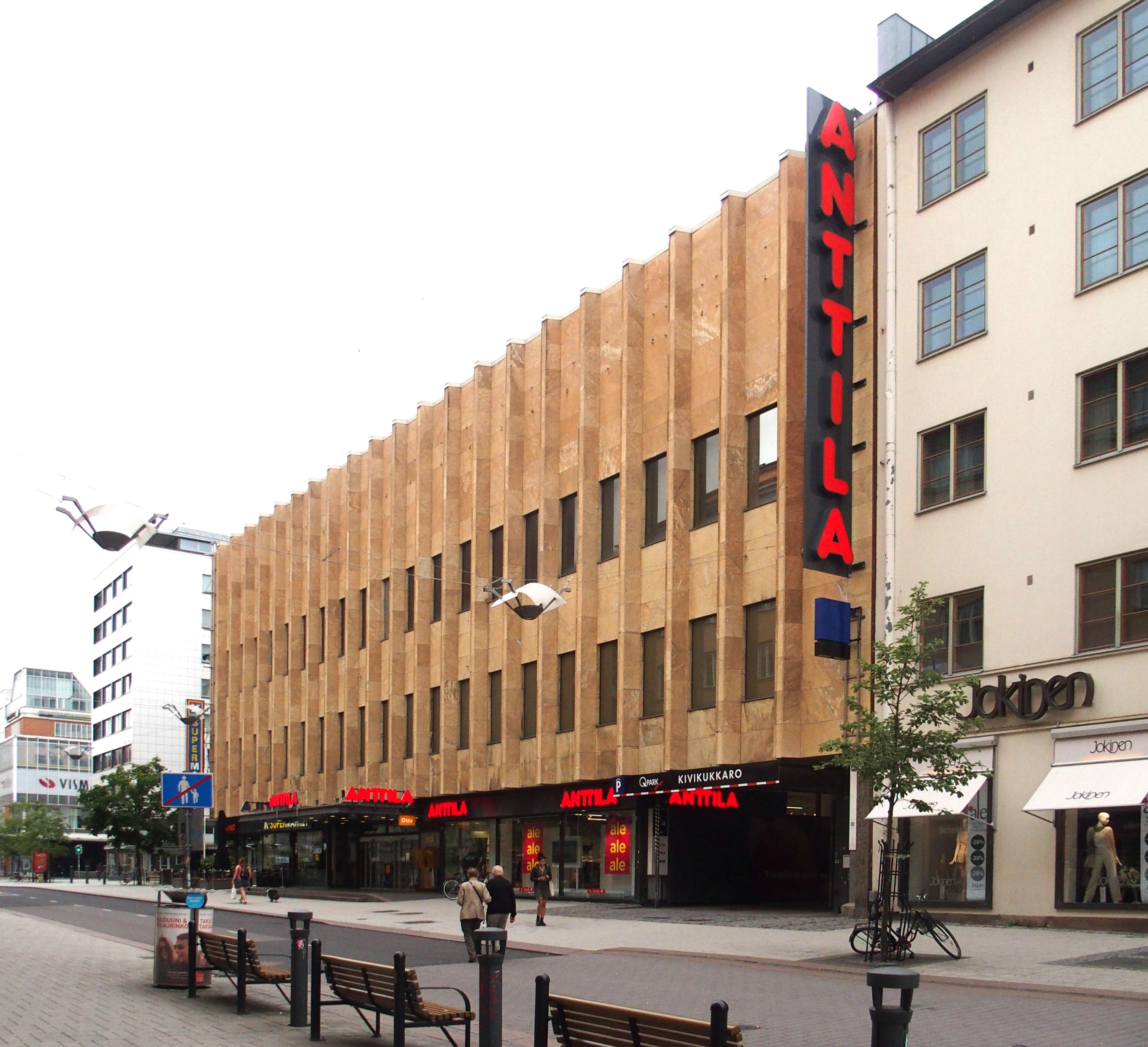 The Kivikukkaro building, architect Aarne Ehojoki, completed 1975. Pictured here in June 2016 soon after re-opening of the Anttila department store under new ownership but before the bankruptcy announced in July 2016. Location: pedestrian street Yliopistonkatu.